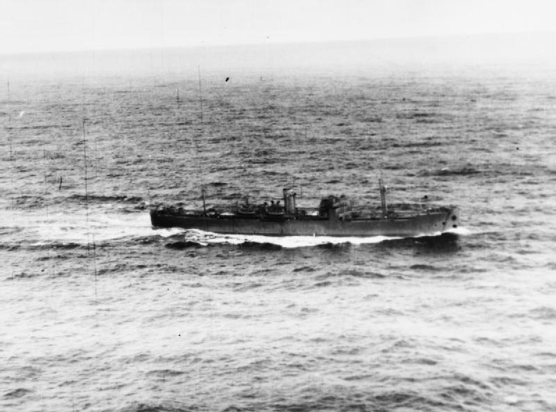 Rcv Port Fairy Underway.